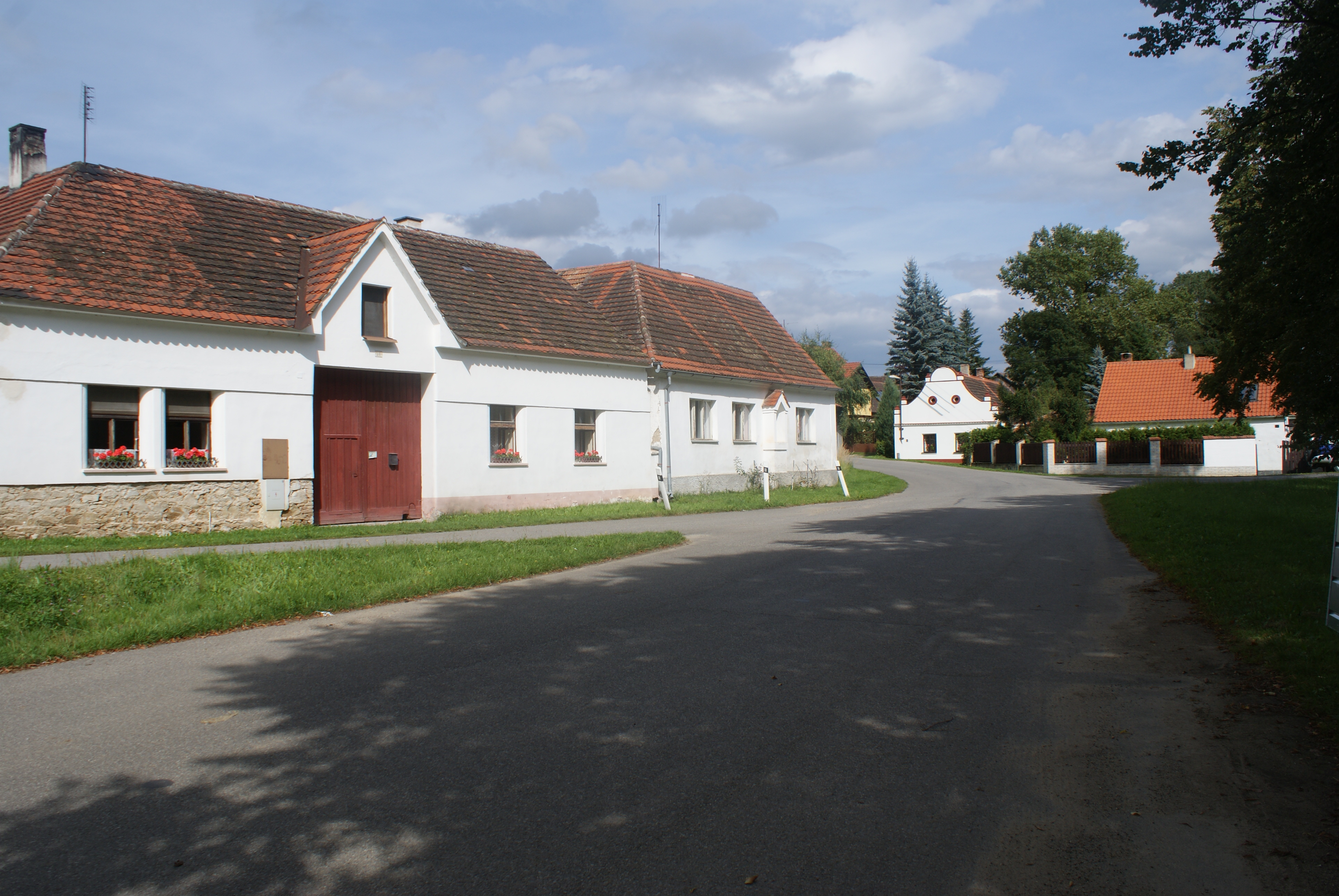 Brloh (Drhovle), a village in Písek district, Czech Republic, part of the village common.